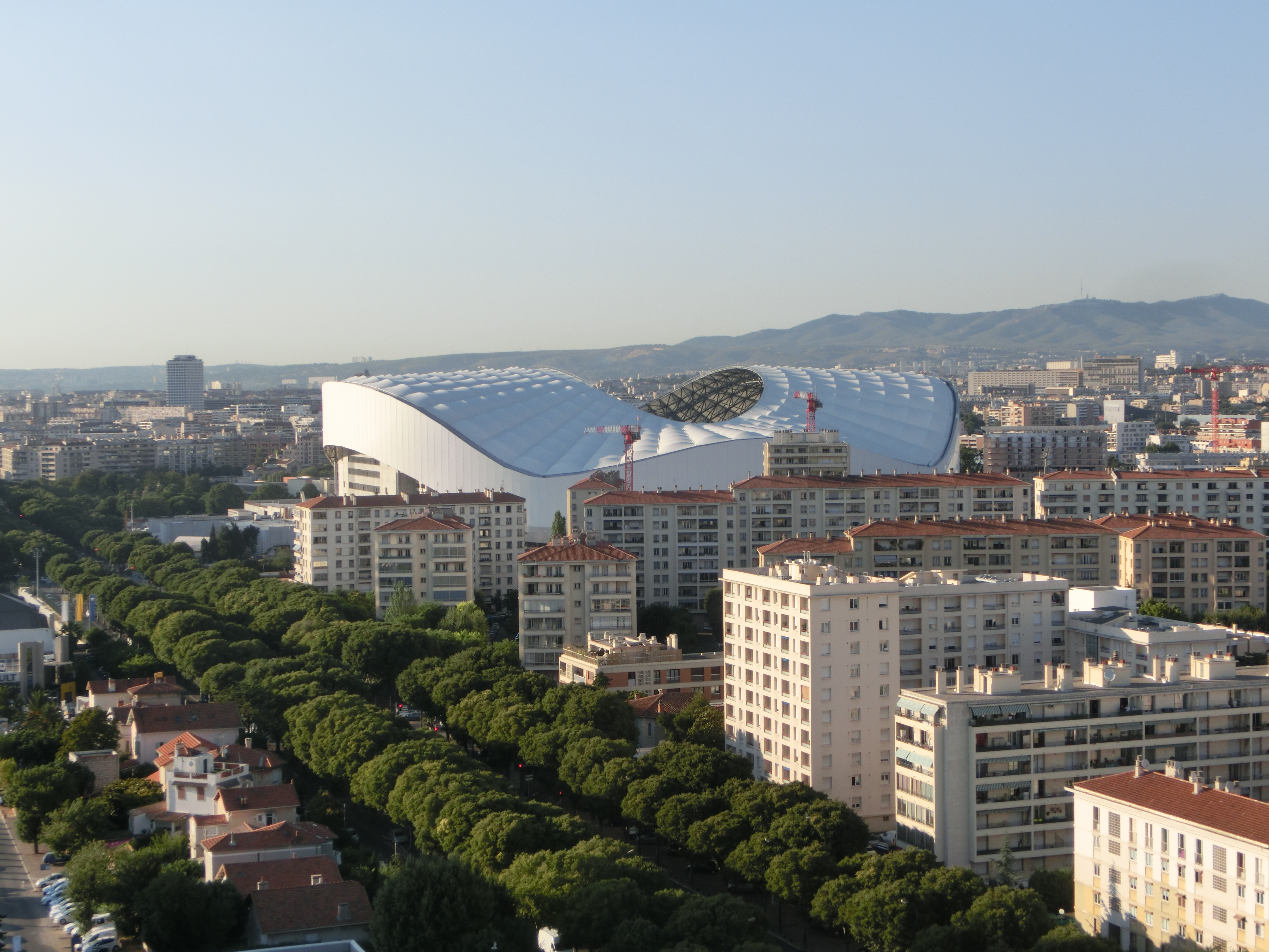 This stadium in France is one of the best examples of textile architecture. Membrane roof and facade.